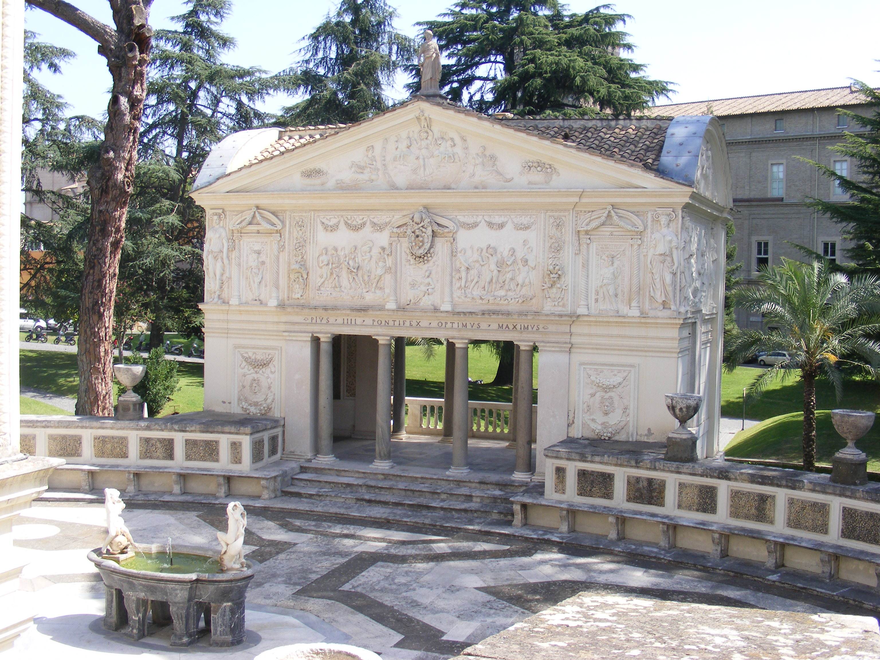 Casina di Pio IV (Villa Pia) — "Casino piccolo" with a small fountain.